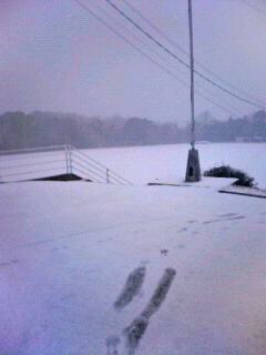 Appearance of ground in Ise high school where snow lies thick. It is comparatively unusual that such scenery is seen in Ise City,Mie Prefecture,Japan.